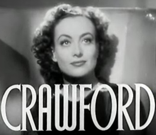 Cropped screenshot of Joan Crawford from the trailer for the film The Last of Mrs. Cheyney